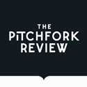 The Pitchfork Review logo